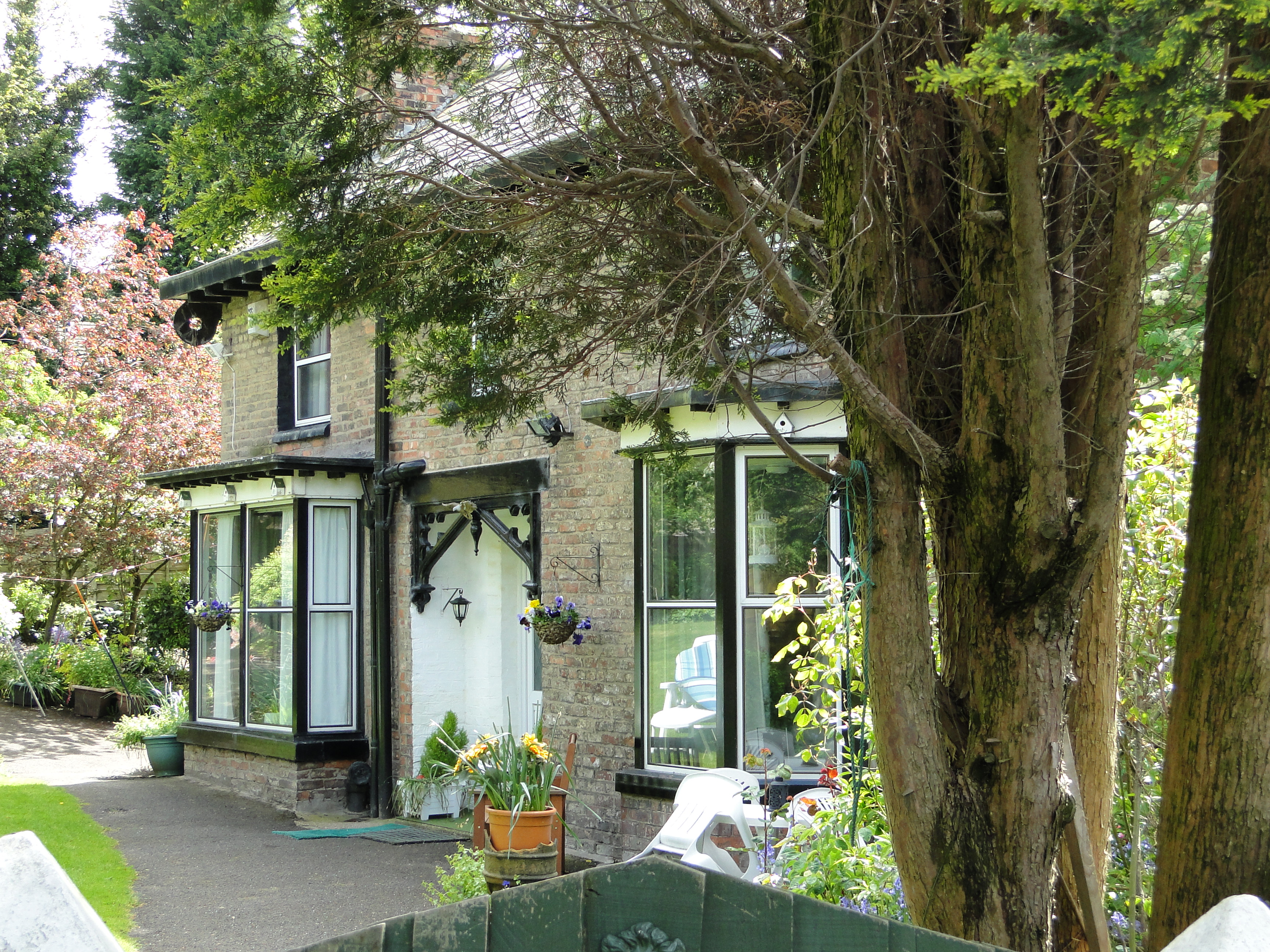 The house thought most likely to be the home of William Crabtree were he made his observation of the transit of Venus, 1639